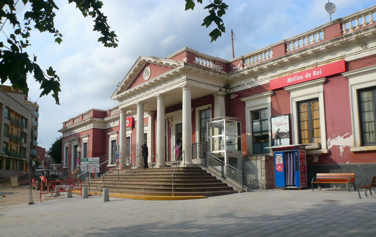 Molins de Rei station.